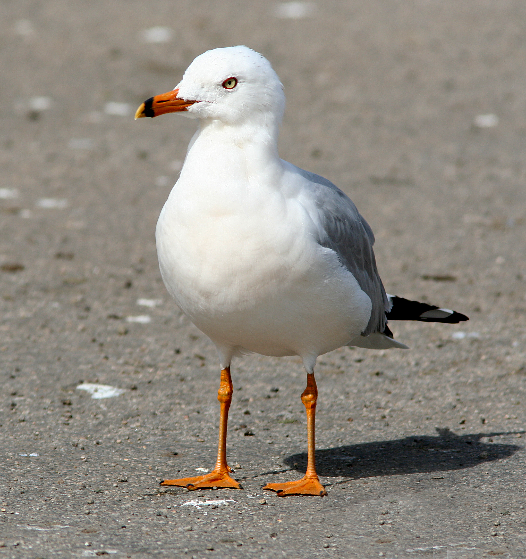 CALIFORNIA - BIRDS of San Luis Obispo Co